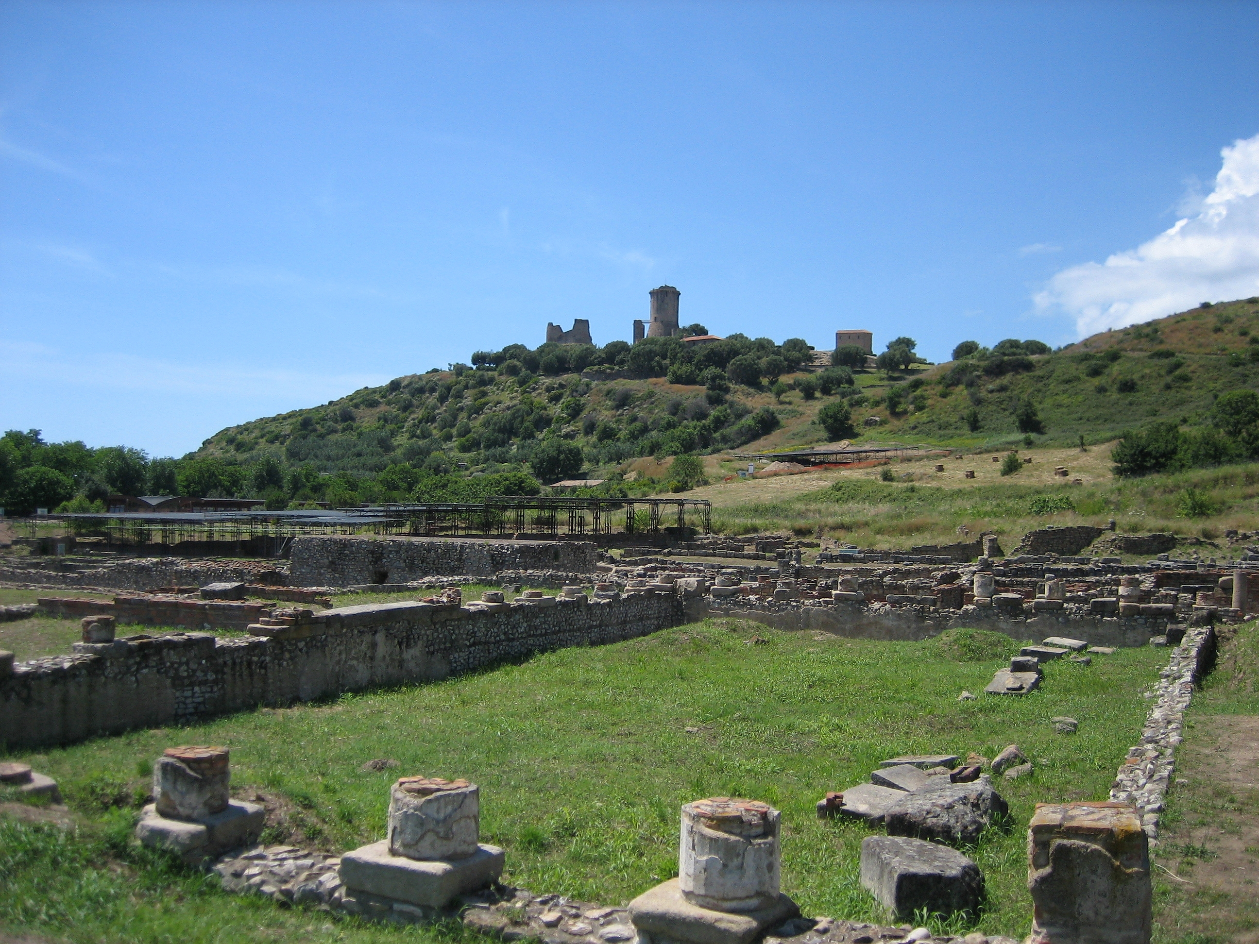 Excavation area of Velia (Elea) near Ascea in Campania, Italy